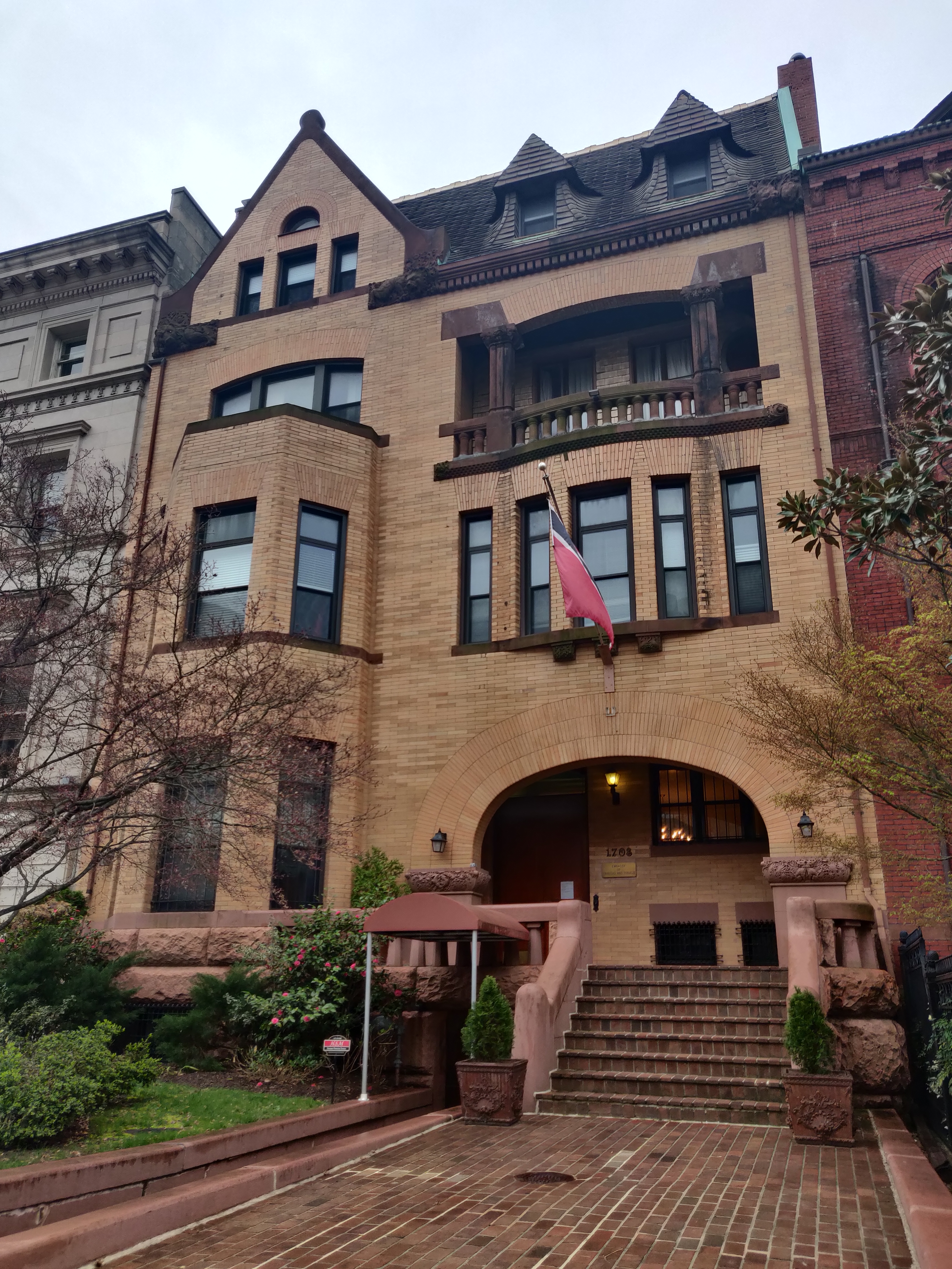 embassy